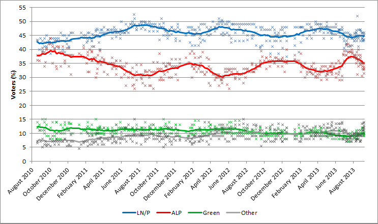 Primary vote polling for the Australian federal election, 2013